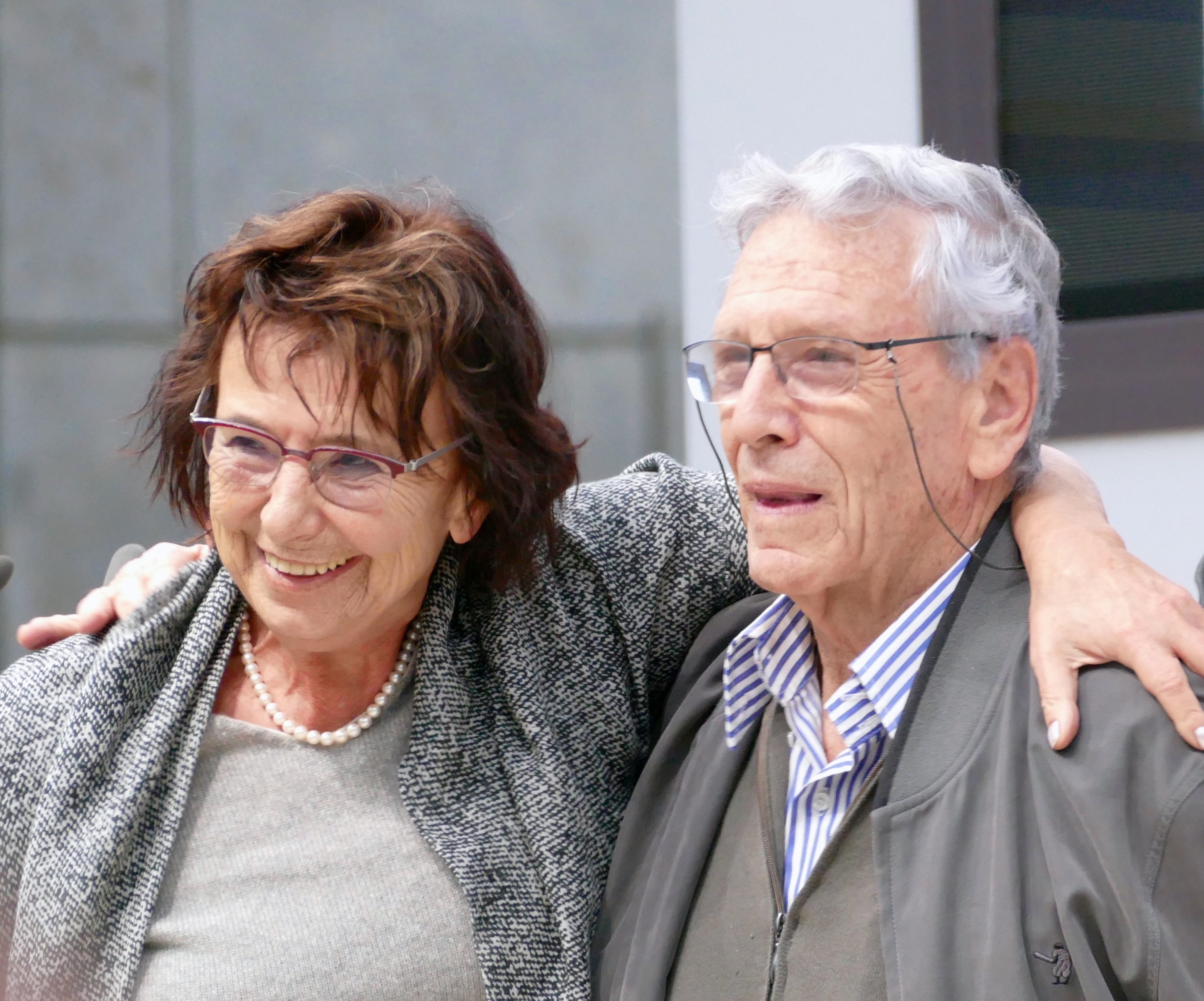 German author and translator Mirjam Pressler and the Israeli author Amos Oz. Mirjam Pressler gets the "price of Leipzig book fair" for her translation of the novel "Judas" by Amos Oz.